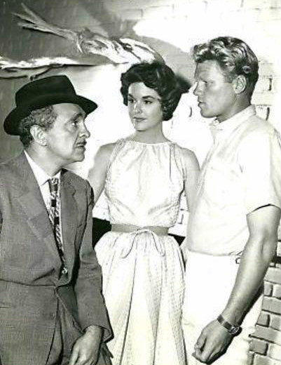 Photo from the television program The Aquanauts. Pictured from left: Sam Levene, Sue Randall, Jeremy Slate.